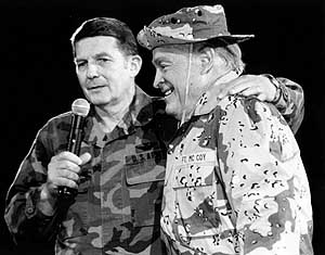 Fort McCoy Commander COL Raymond G. Boland appears on stage with Bob Hope at Lacrosse, Wisconsin on 19 October 1990. Hope donated tickets to his to soldiers who were training at Fort McCoy in preparation for the Gulf War. Boland presented Hope with a desert camouflage BDU jacket and cap in appreciation for the tickets for the troops.